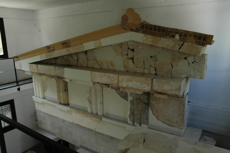 Reconstructed entablature and pediment of the Temple of Aphaia I in the on-site museum. J. M. Harrington, personal digital image